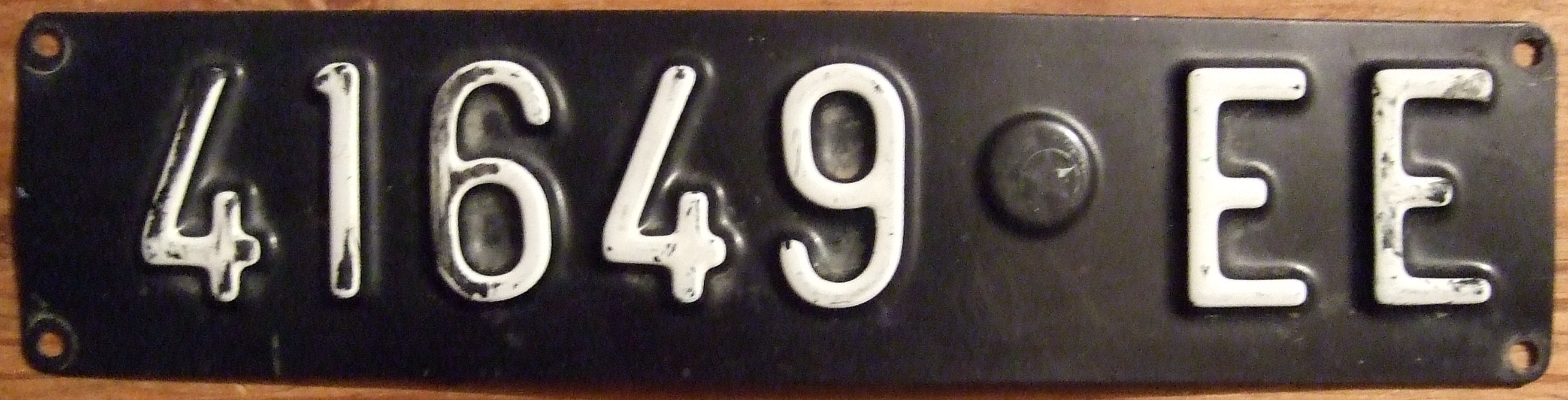 Small sized Italian temporary plate to be mounted on the front bumper. Larger plates with the same serial number were used on the rear bumper. The code "EE" denotes this plate as a temporary issue.